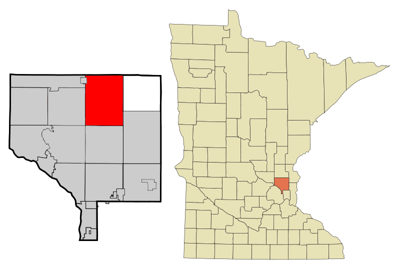 This map shows the incorporated and unincorporated areas in Anoka County, highlighting East Bethel in red. This file has been updated to reflect the recent incorporation of new municipalities.